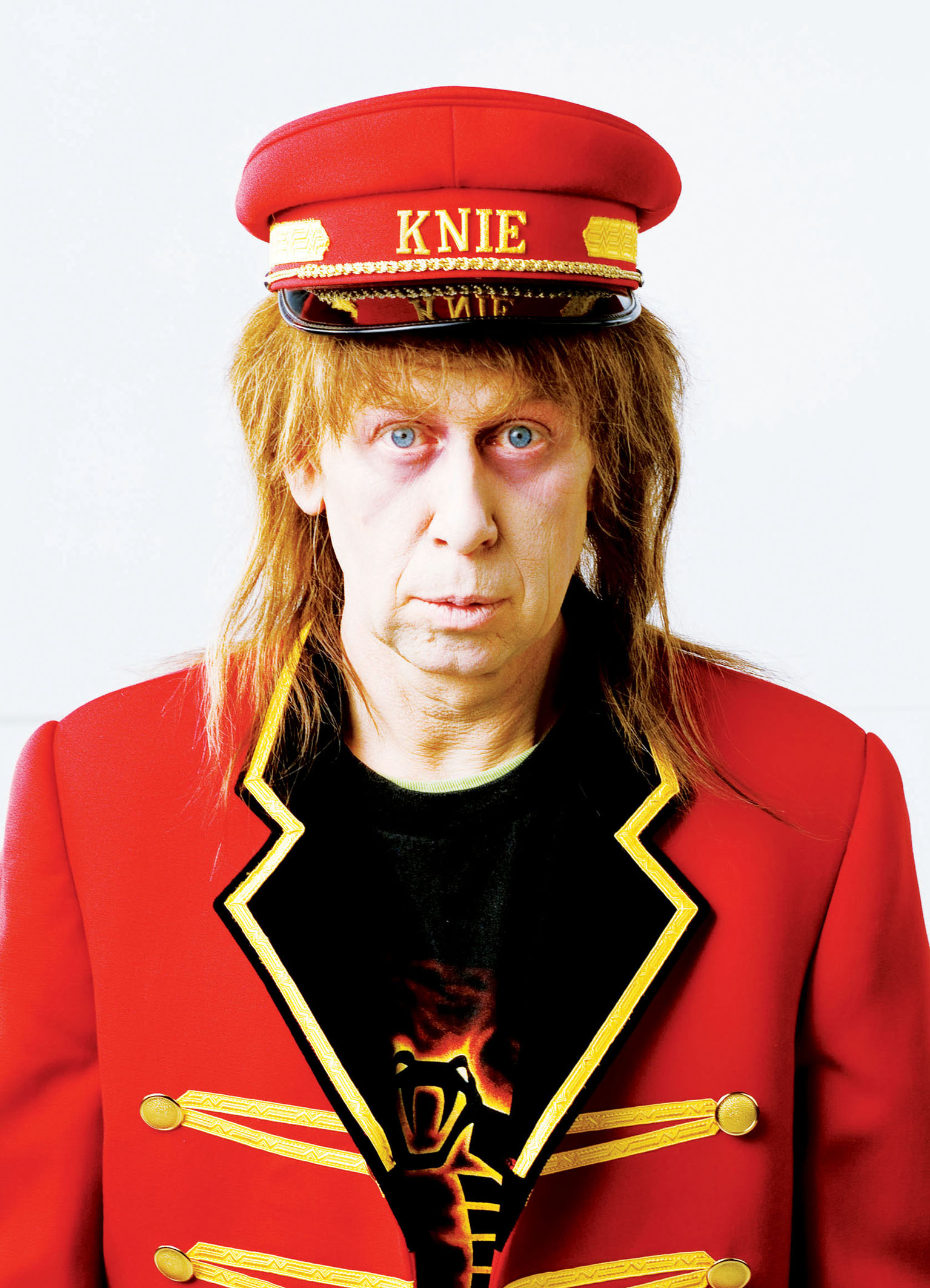 Viktor Giacobbo, Swiss Comedian